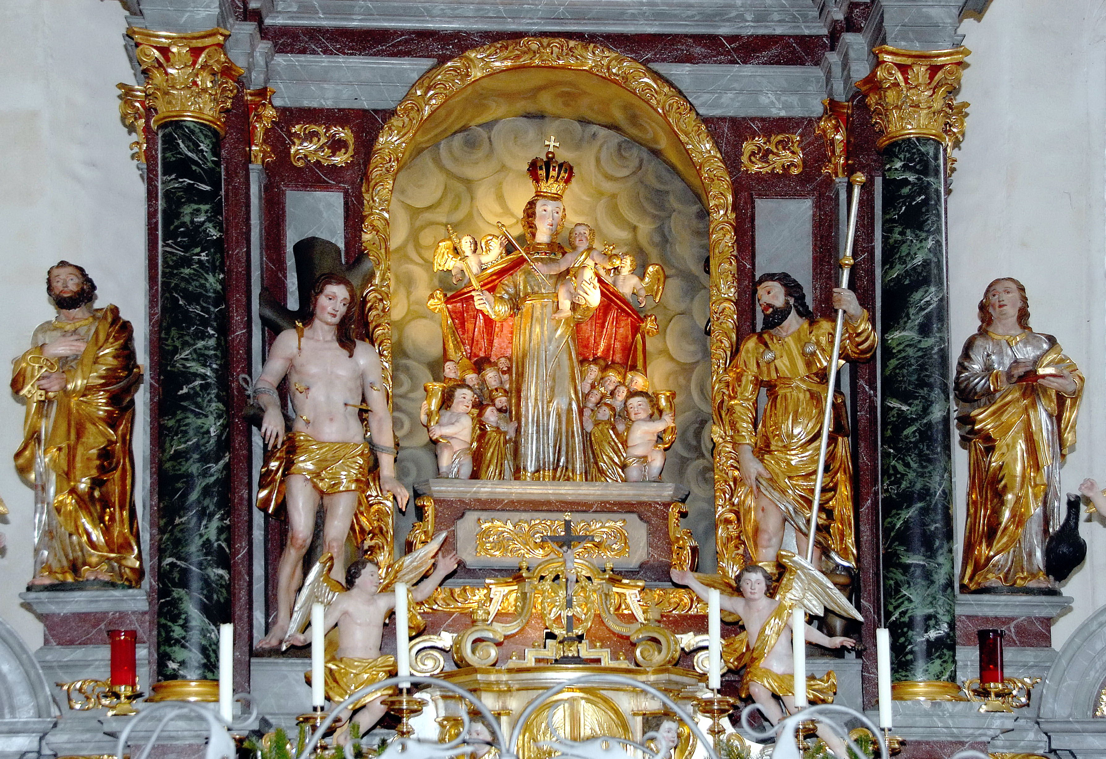 High altar with Virgin of Mercy in the parish and pilgrimage church in Maria Gail, statutary city Villach, Carinthia, Austria, EU